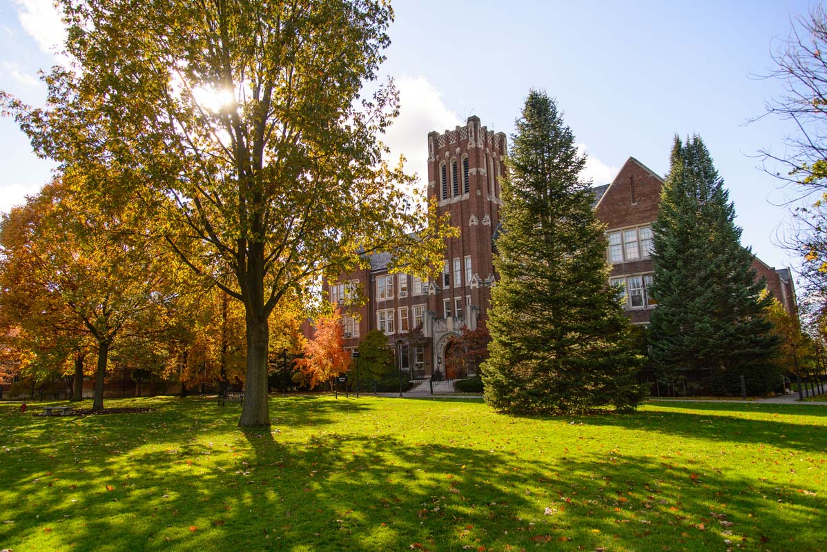 Nazareth College in Pittsford, NY